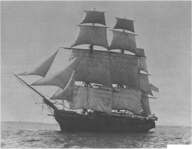 USS Jamestown, a sloop built in 1844